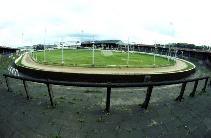 i created this image